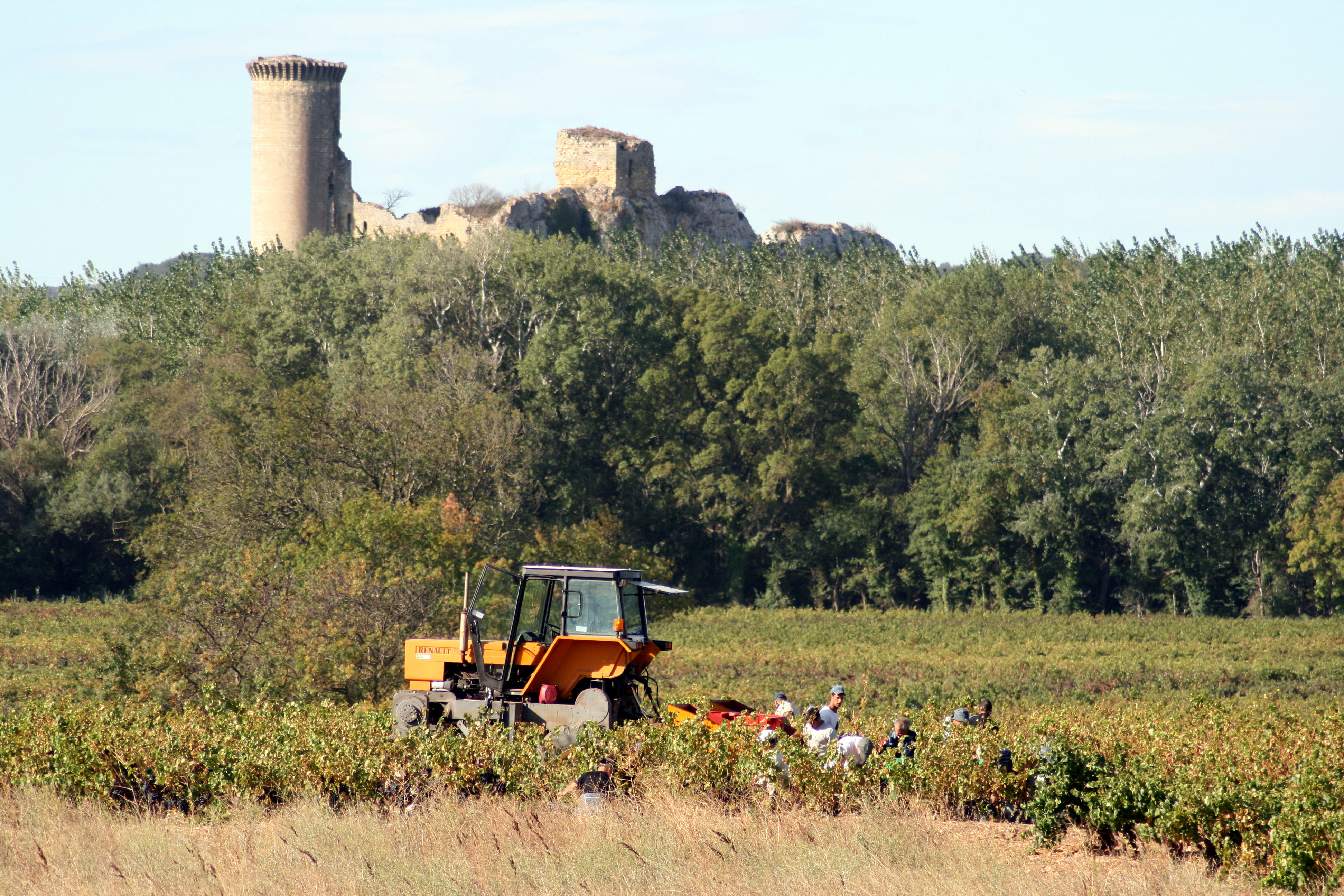 Grape harvest at Châteauneuf-du-Pape